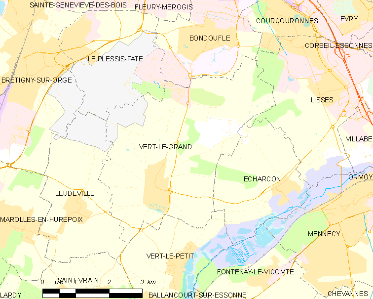 Map of French municipality Vert-le-Grand